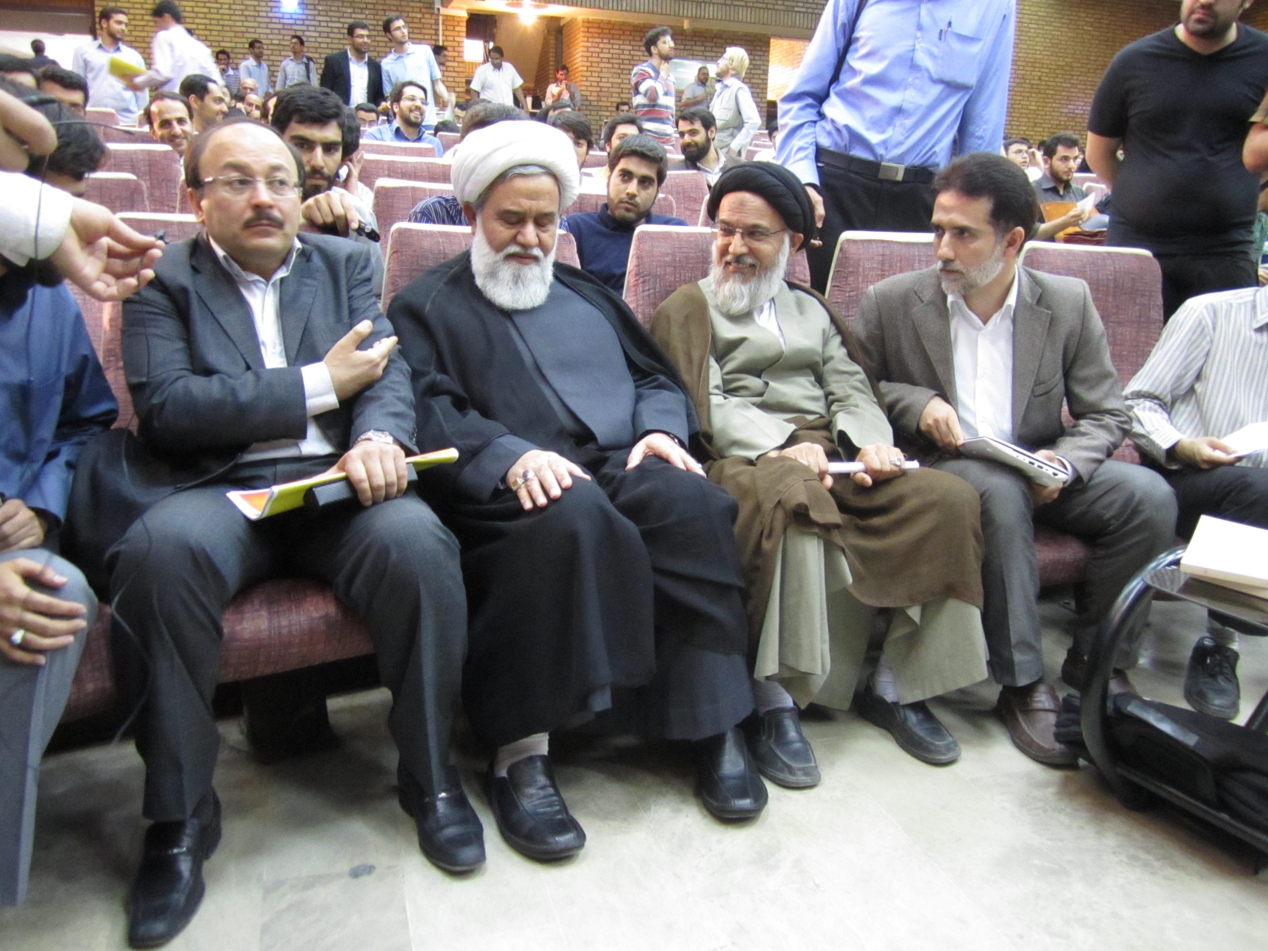 Bizhan Abdolkarimi